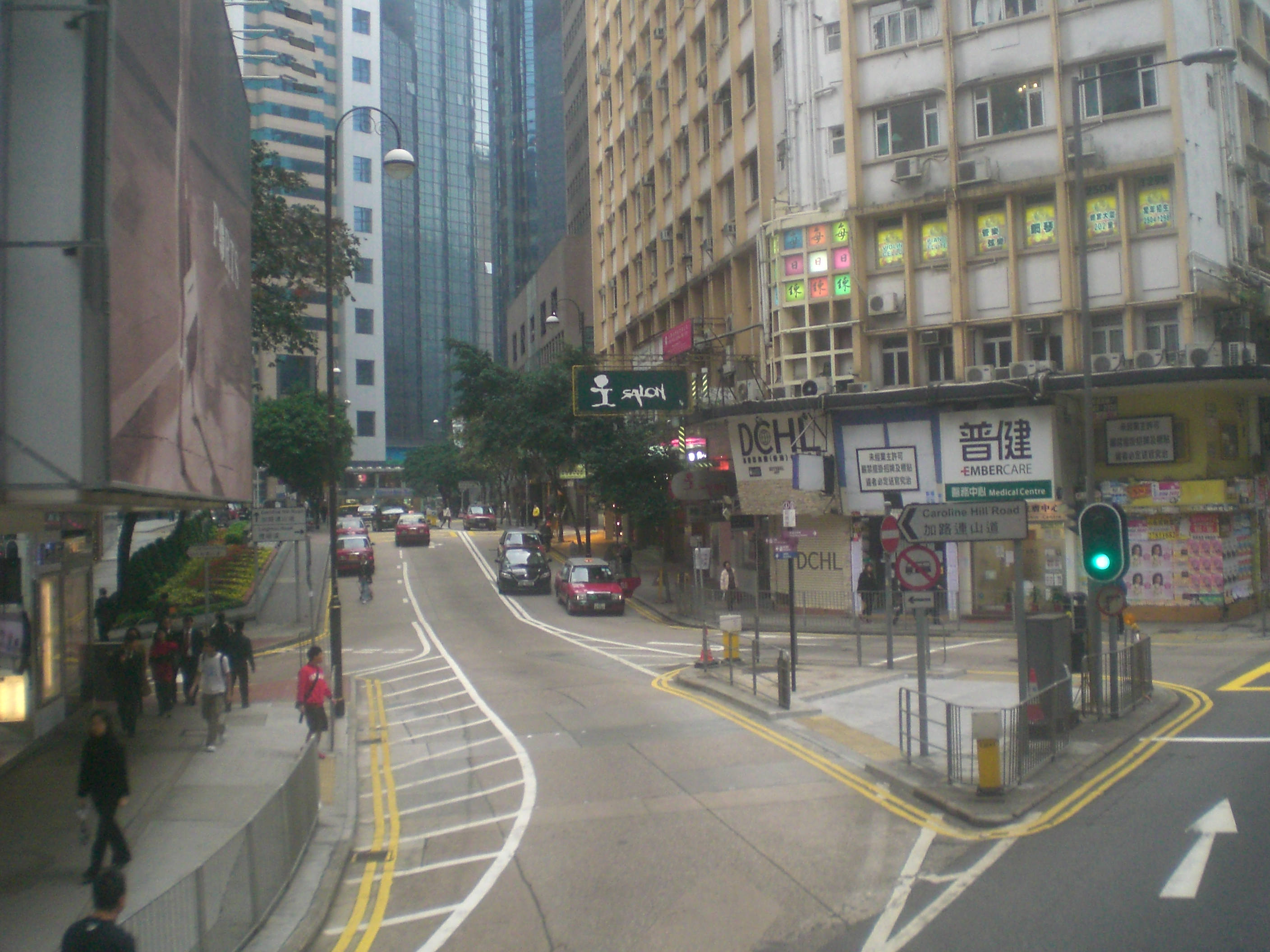 城巴10線外望: 禮頓道 & 希慎道交界處